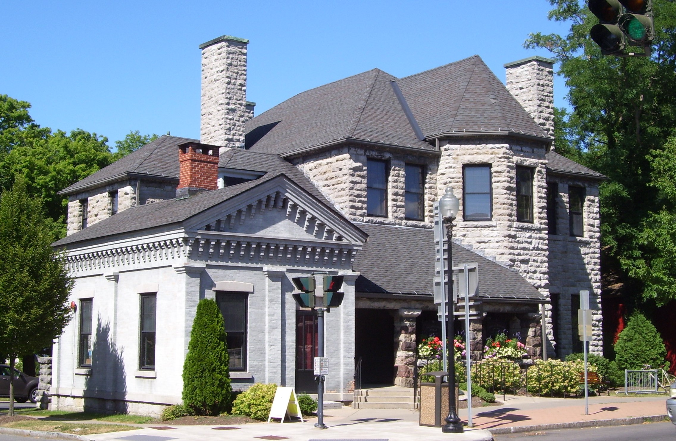 The Skaneatles Library and John D. Barrow Art Gallery at 49 East Genesee Street at the corner of State Street in Skaneateles, New York was built in 1886-87 in the Romanesque Revival style; a back wing was added c.1905. It is located within the Skaneatles Historic District. (Source: [1]) The John D. Barrow Art Gallery, which shares the building with the library, is a non-profit organization, separate from the library, dedicated to the work of John D. Barrow, a paionter of the Hudson River School. (Source: [2])